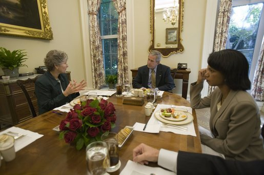 President George W. Bush is joined for lunch Wednesday, October 5, 2005, by Secretary of State Dr. Condoleezza Rice and Karen Hughes, then newly appointed Under Secretary of State for Public Diplomacy and Public Affairs.